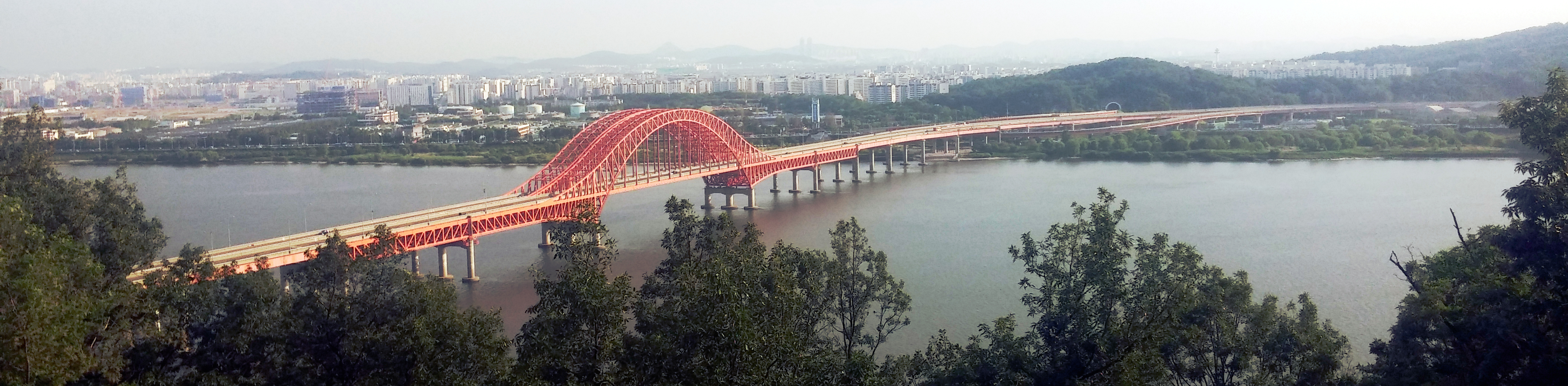 Banghwadaegyo(Bridge).